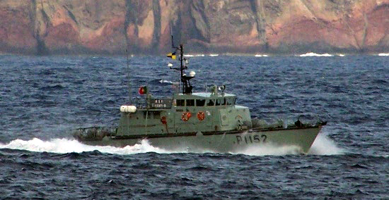 Ship NRP Escorpiao at Madeira Island's shore, heading to Porto Santo.